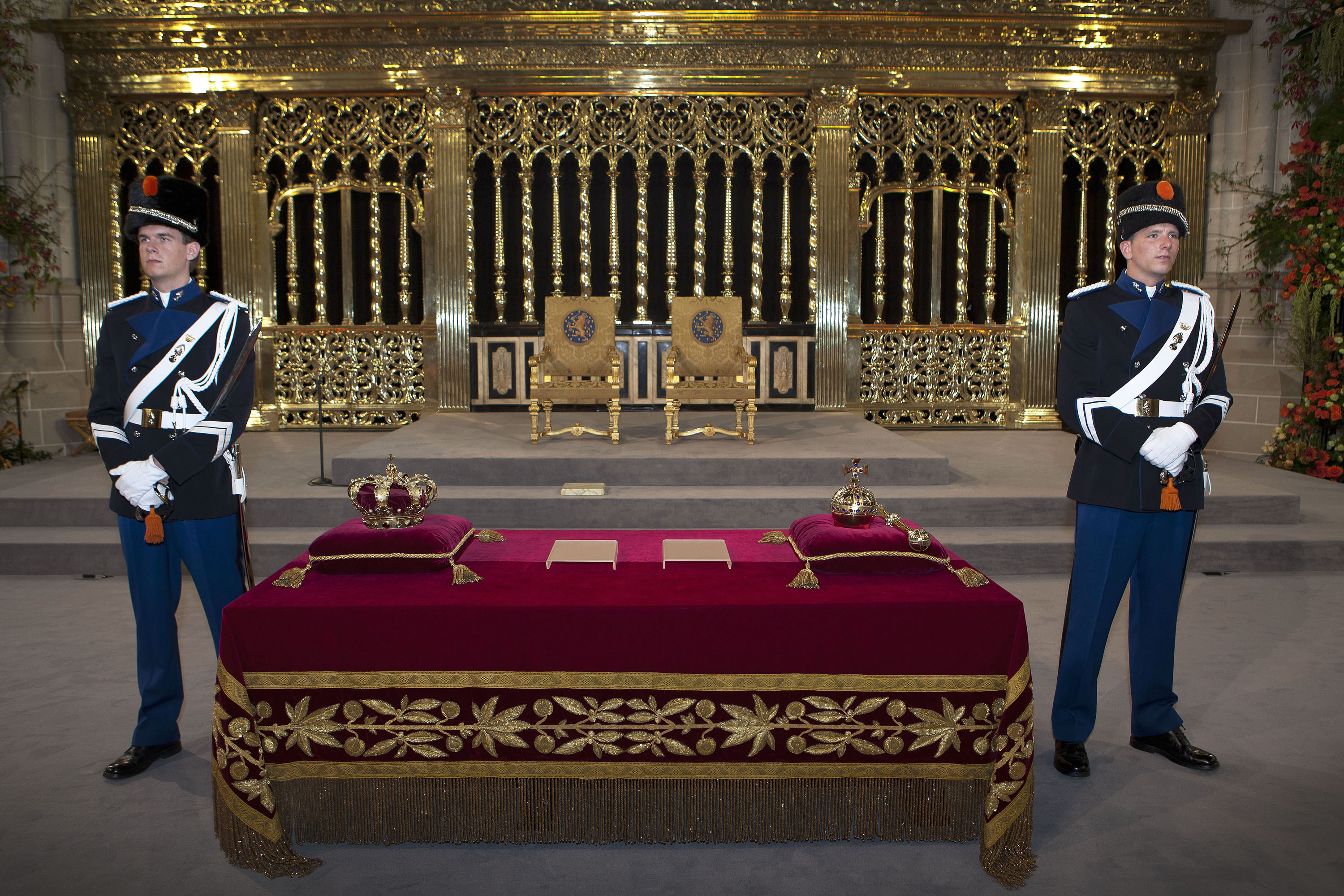 Dutch regelia placed on the credence table at the investiture of Willem-Alexander